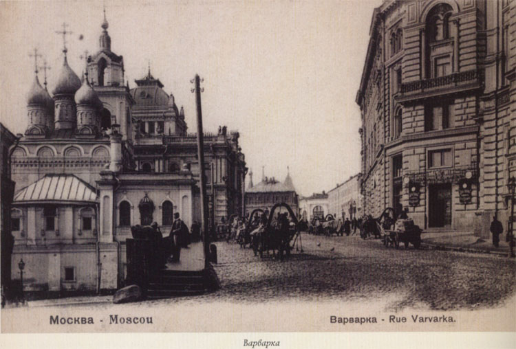 Street Varvarka